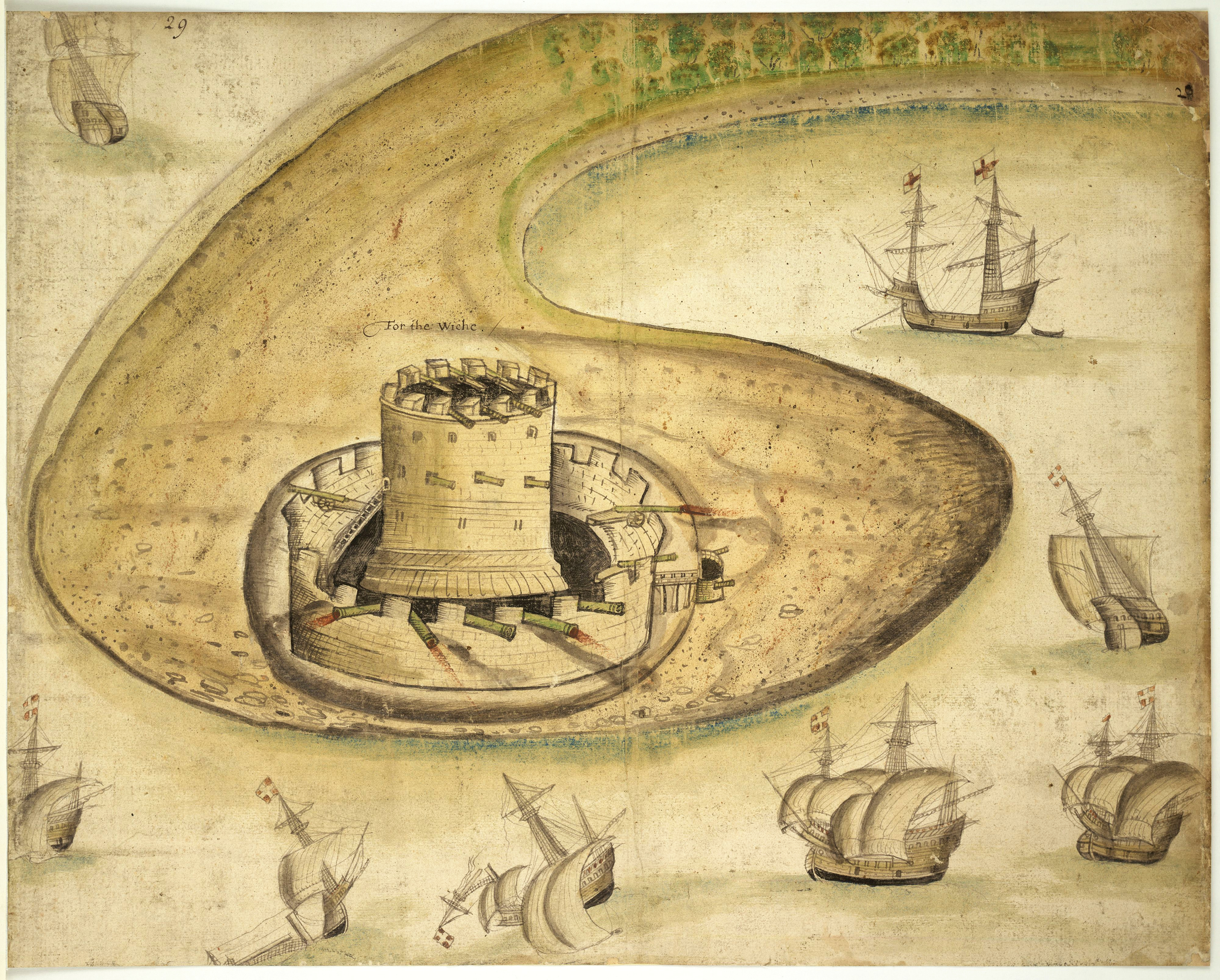 "A coloured representation of a castle, said to be 'for the Wiche:' it is probably intended for Wych Channel in Poole Bay, in Dorsetshire" - Calshot Castle in the Solent, a more-or-less realistic drawing from 1539. Pigments on vellum.